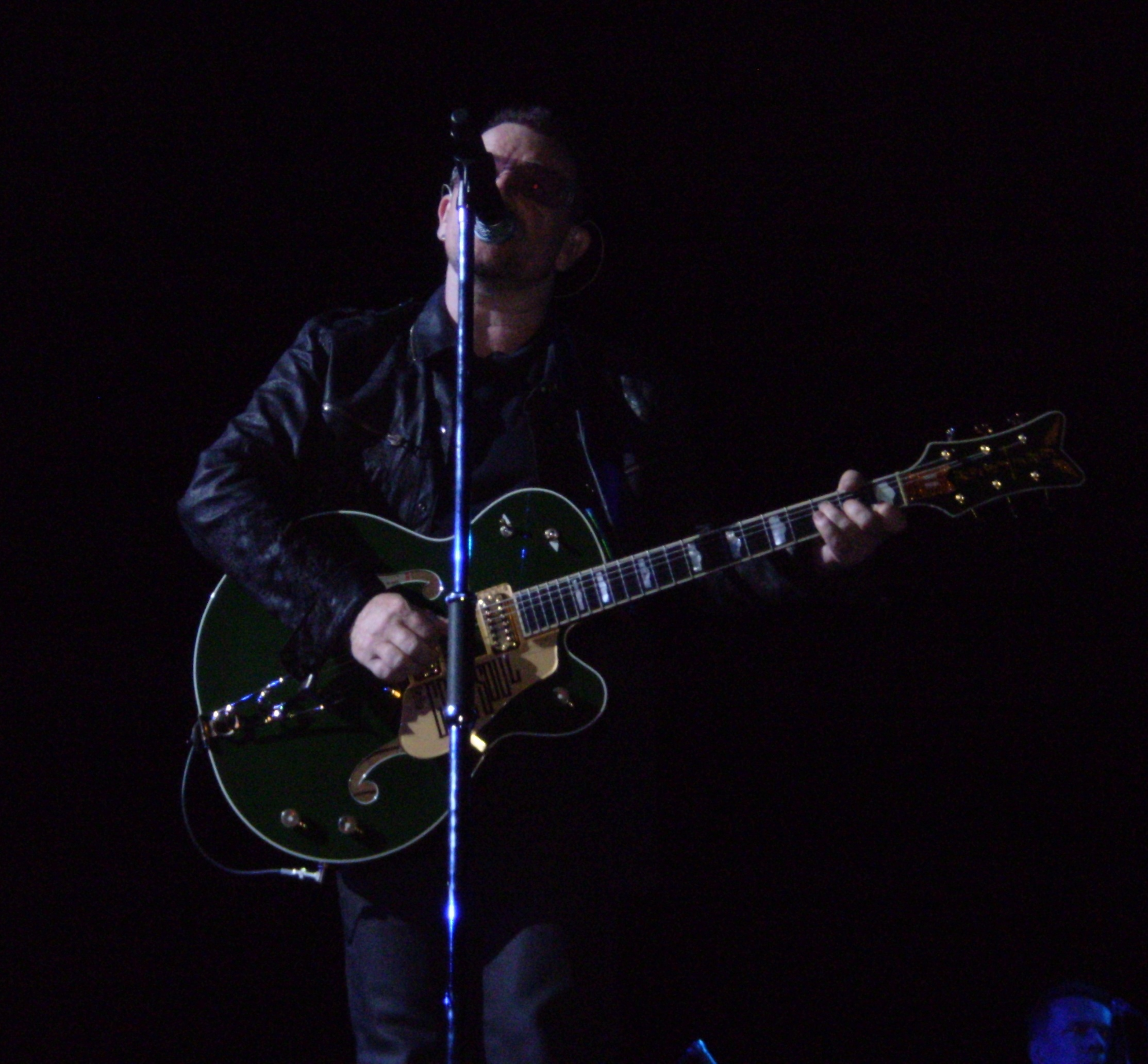 An image of Bono playing guitar during a performance of "One" on the U2 360° Tour. Taken at the Rogers Centre in Toronto, Ontario, on 16 September, 2009.